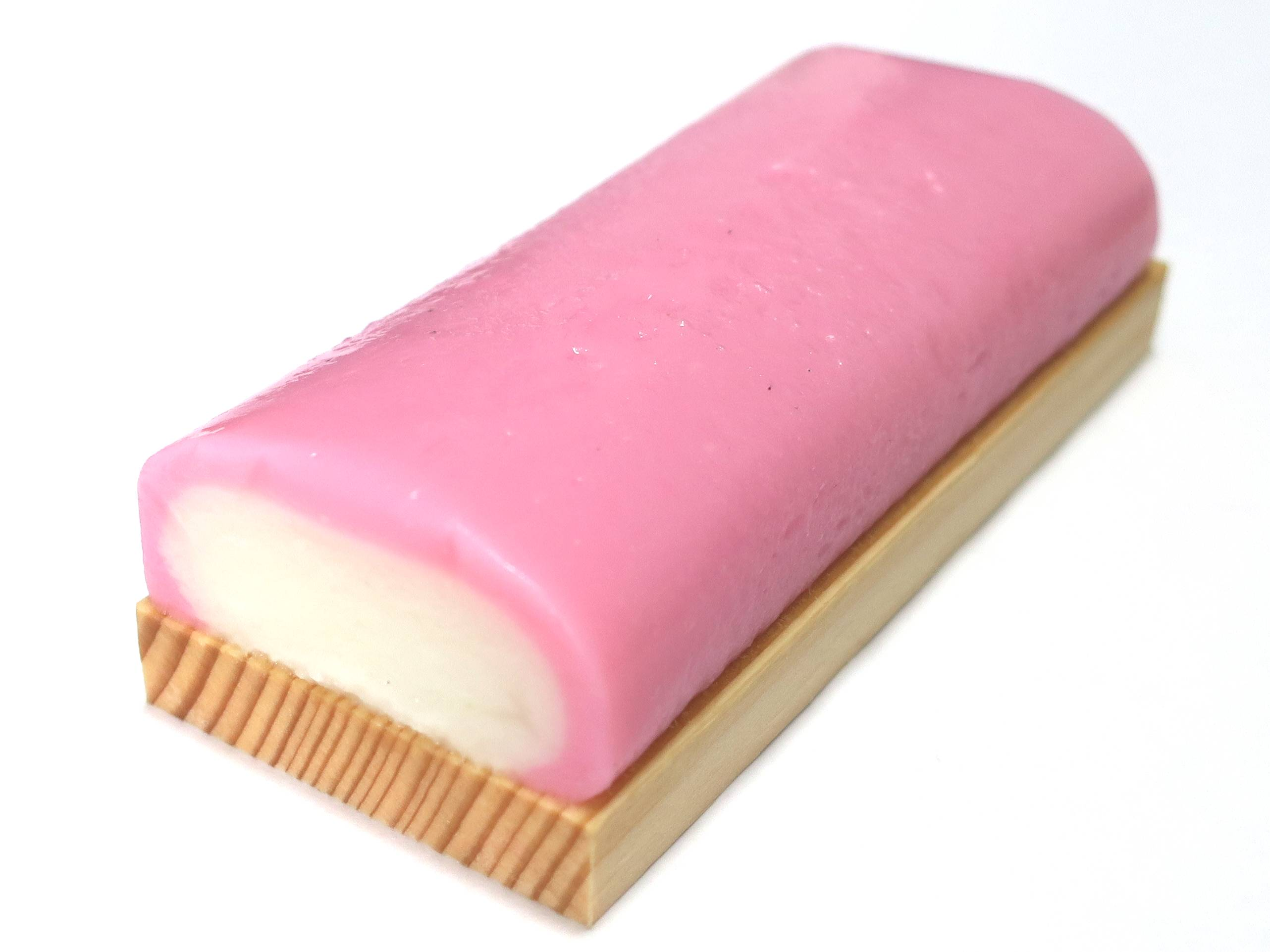 Horikawa kamaboko red 80g.